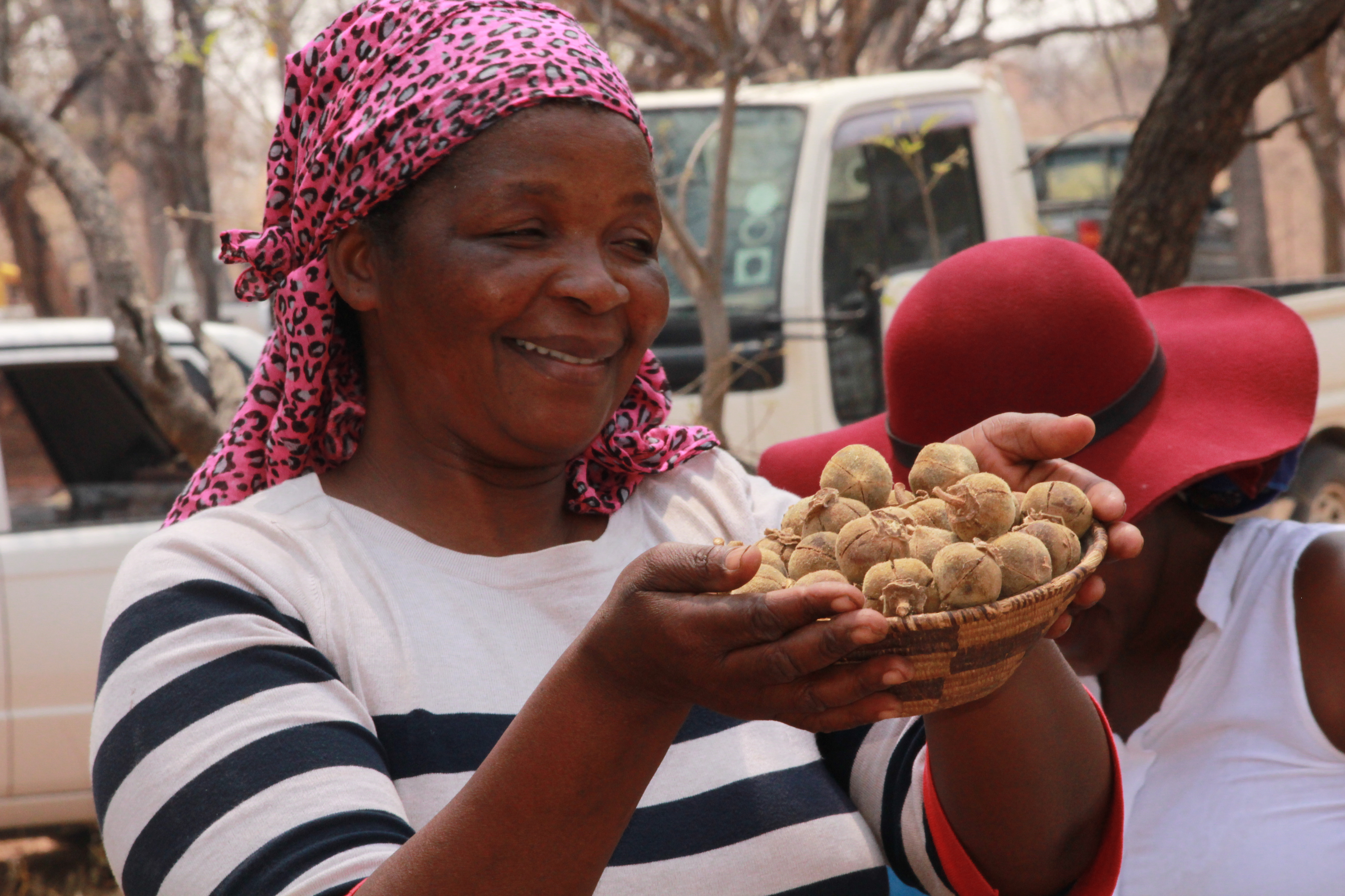 Kalanga woman selling Morojwa (Thespesia garckeana) Natural fruit 3 (Botswana) This is an image of "African people at work" from Botswana